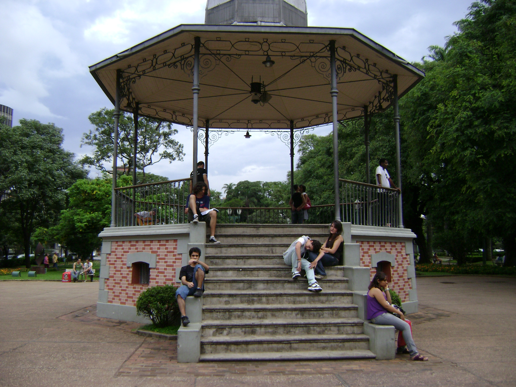 Bandstand, Praça da Liberdade, Belo Horizonte, Brazil.